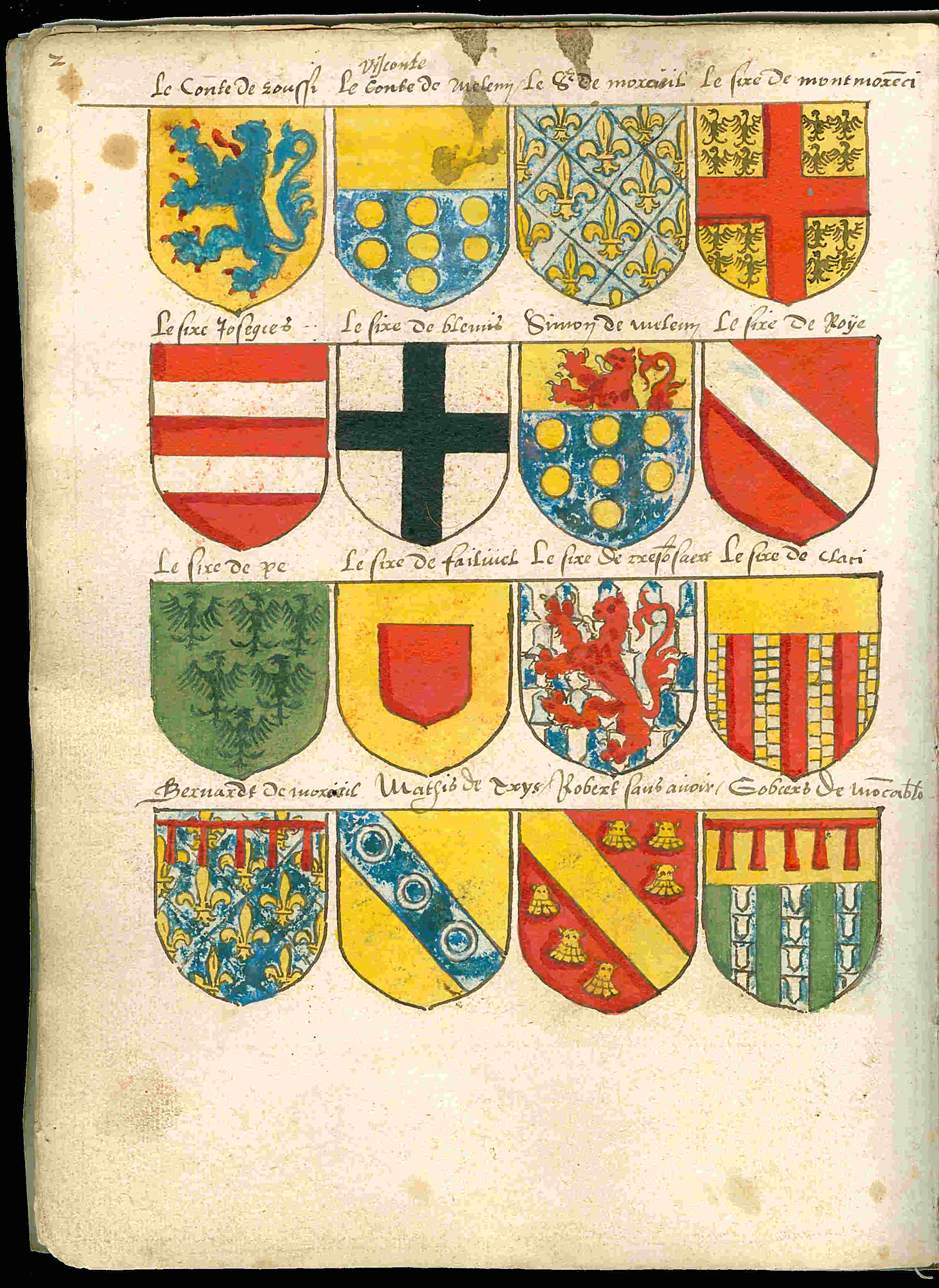 Page 02 from a copy of the Beyeren armorial / Wapenboek Beyeren from ca. 1600. The original Beyeren armorial from 1405 can be viewed at the website of the KB